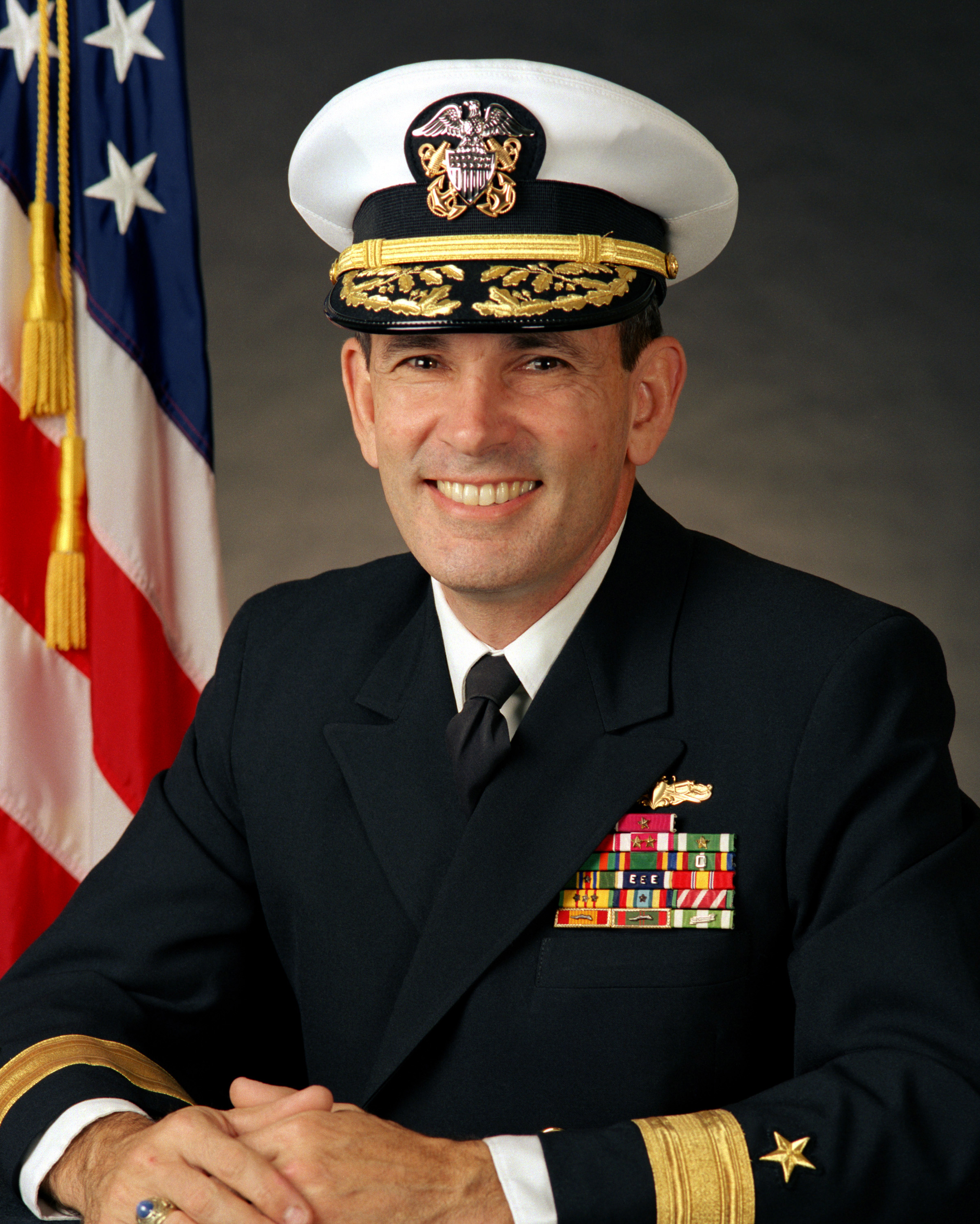 Vice Admiral (here photographed as a Rear Admiral lower half) Douglas J. Katz, USN communicated with the Hartwig family and participated in the Iowa investigation. (Released to Public)